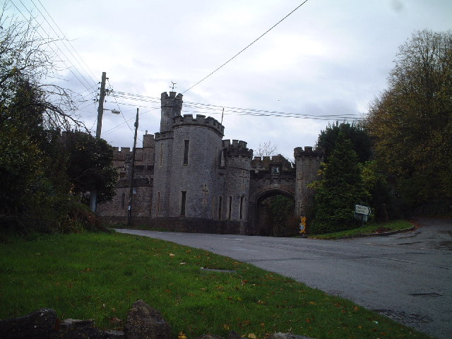 Banwell Castle Open to the public for Teas, great views towards Winscombe.